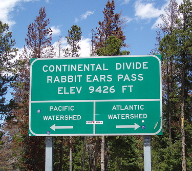 The Continental Divide at Rabit Ears Pass